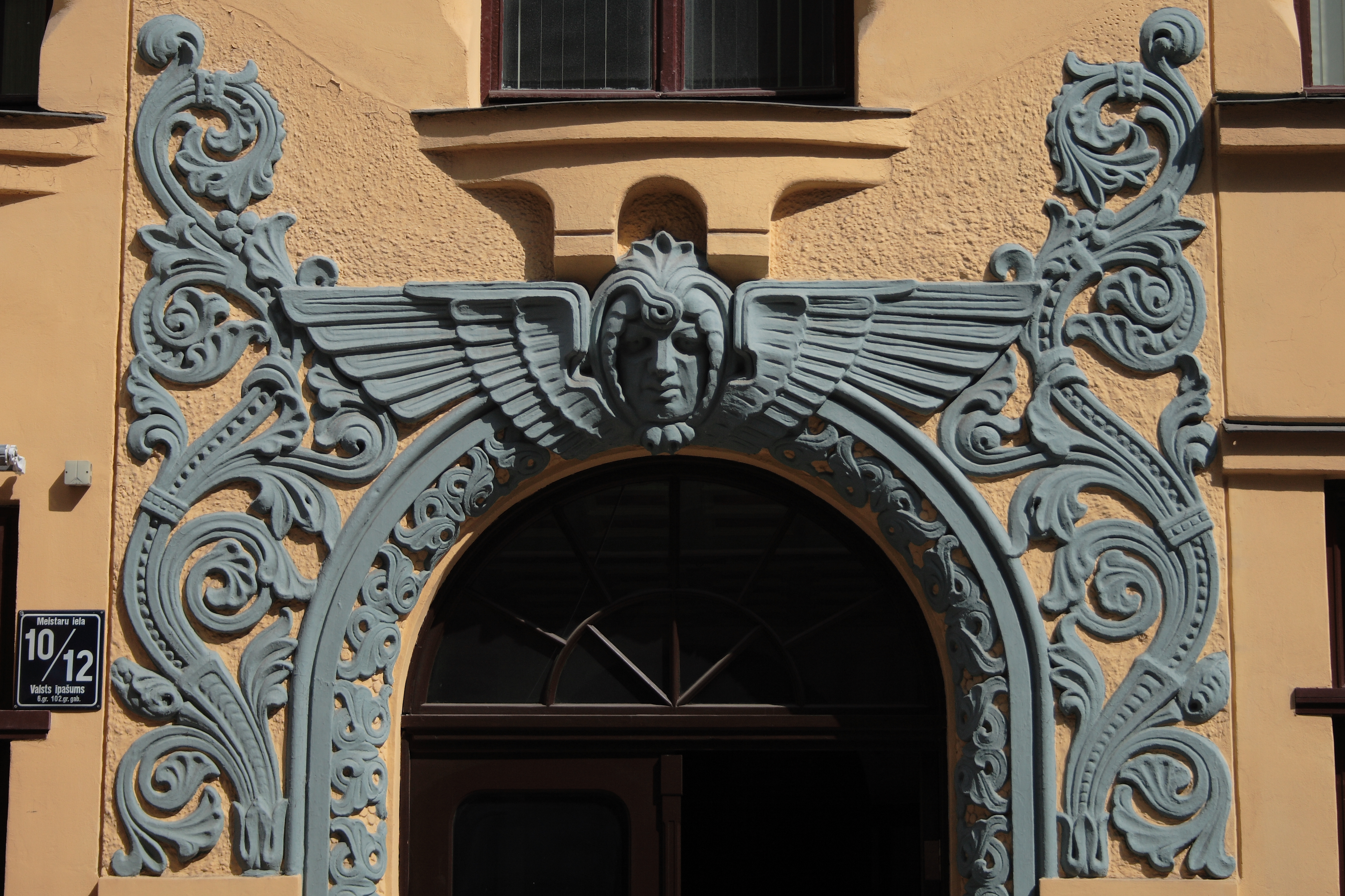 Art Nouveau detail from 10/12 Meistaru Street in Riga, Latvia